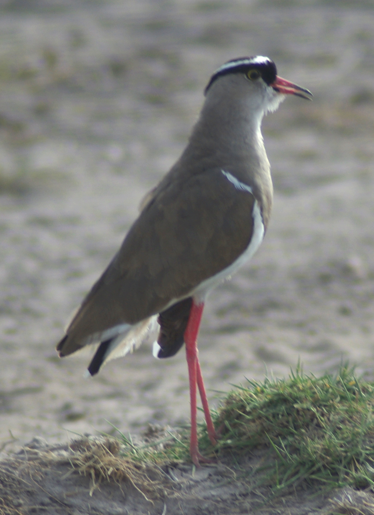 Adult Crowned Lapwing or Crowned Plover, Vanellus coronatus coronatus, Amboseli National Park, Kenya. The time stamp is ten hours too early.